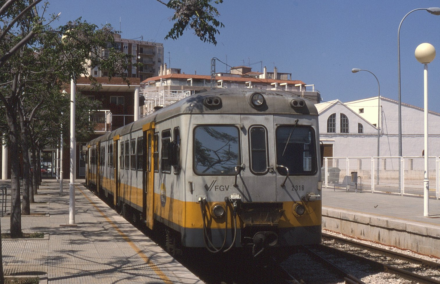 End of the line of the of the Alacant to Dénia metre gauge railway operated by regional government owned Ferrocarrils de la Generalitat Valenciana (FGV). Back in 1997 the line was diesel operated throughout with railcars as seen here. However as part of a major upgrade the system has been part converted to a tram operated network. As of 2012, this extends from Alacant to Altea with an extension in Alacant itself as part of an urban tramway system. Beyond Benidorm to here, Dénia, the system still remains diesel worked although under electrification. On 15 April 1997, 2316 (with 2315 behind) has arrived at Dénia on the 13:00 from Alacant. Some unrefurbished sets still survive although others were extensively built to a more modern looking class 2500.